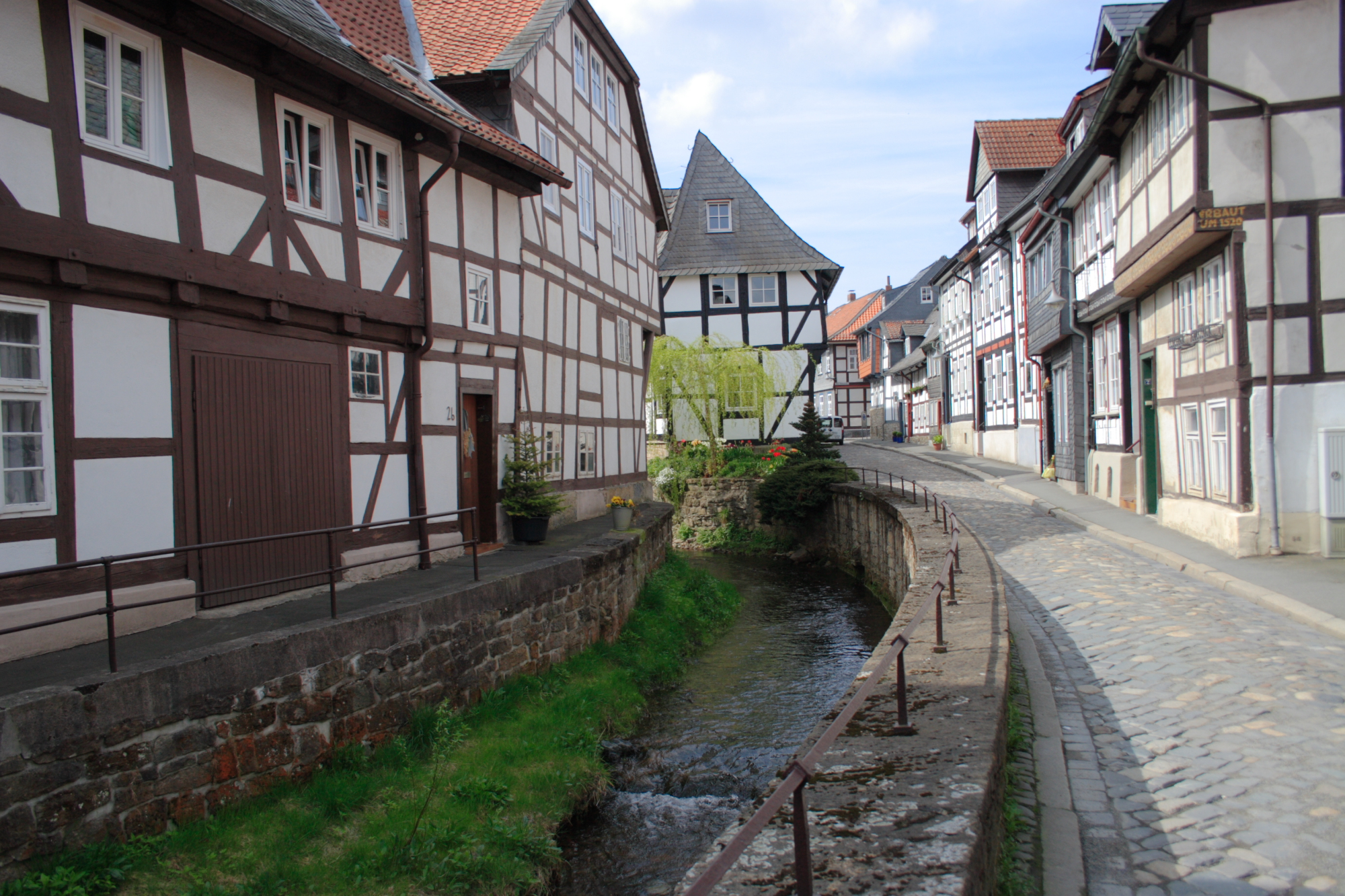 Old town of Goslar. Daucheland.